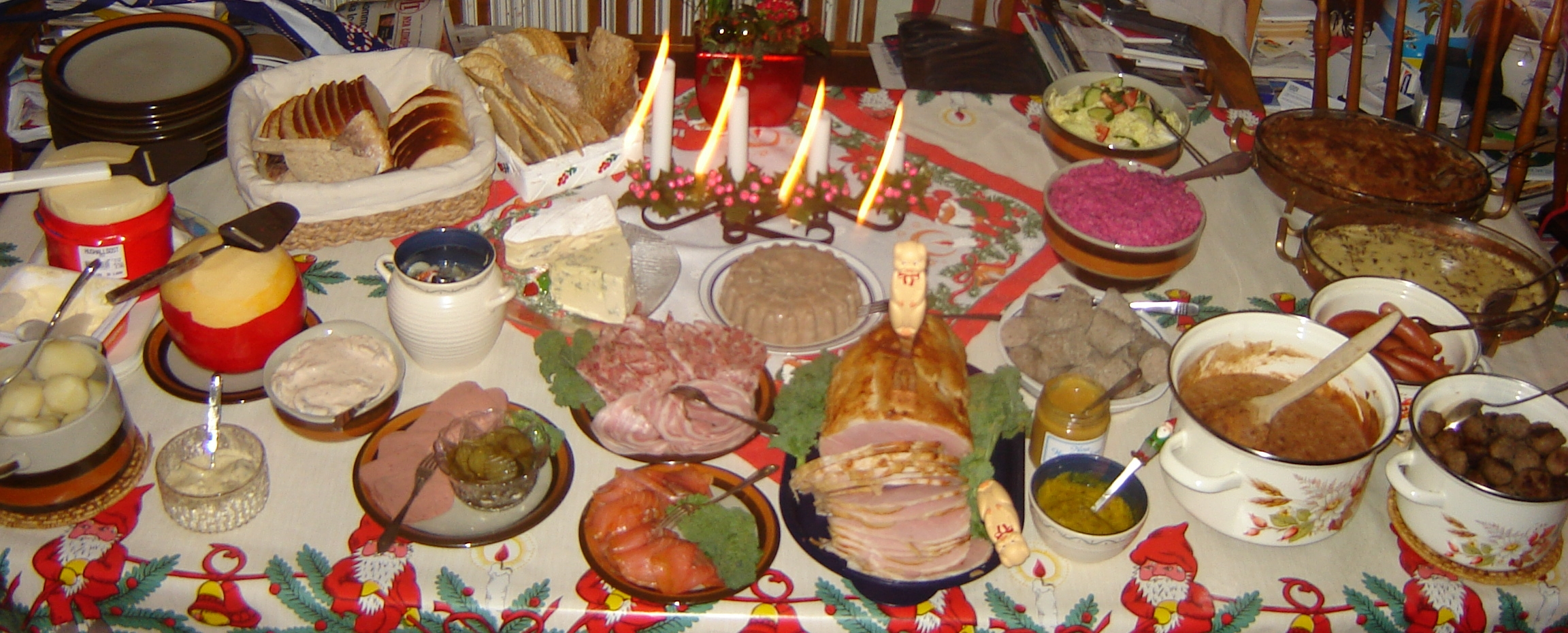 Julbord with several traditional Swedish dishes